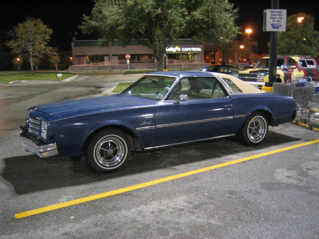 1977 Buick Special coupe (a subseries of the Buick Century)